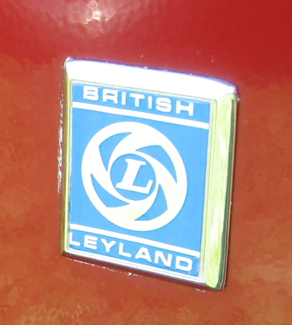 A British Leyland badge on a Triumph TR6